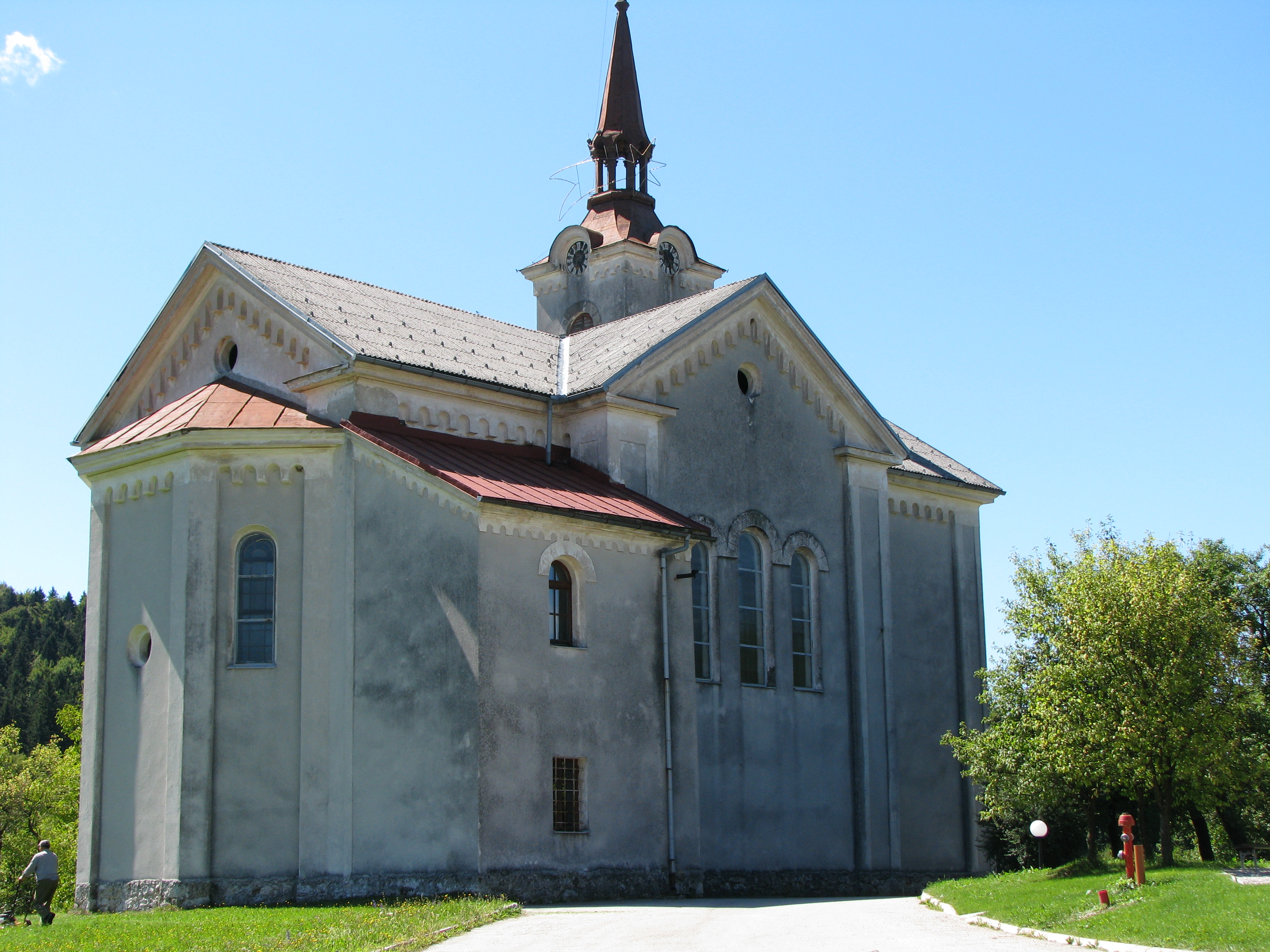 Parish church of Saint Lambert, Šentlambert, Zagorje ob Savi municipality, Slovenia